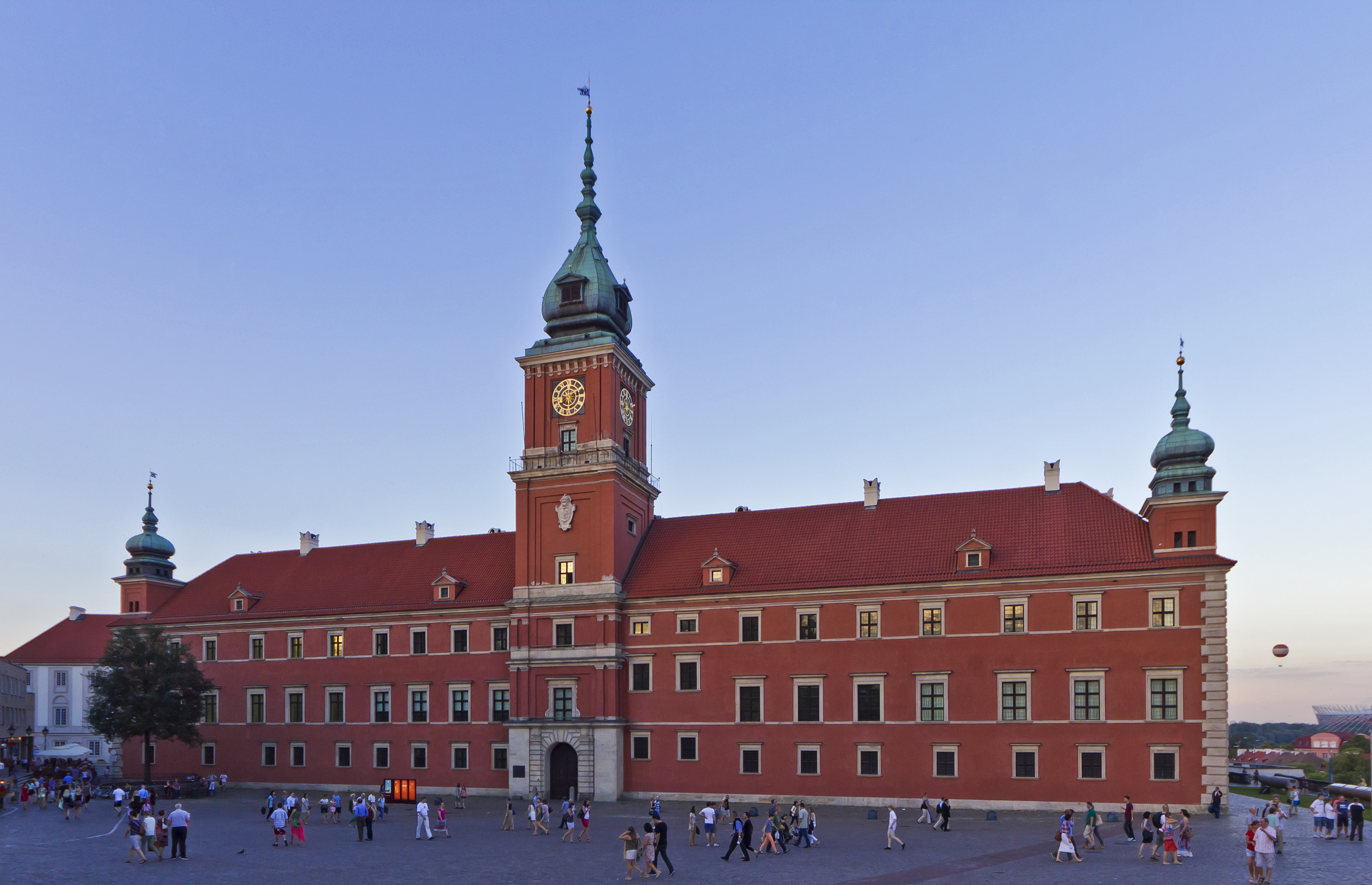 Royal Castle in the Old Town (Stare Miasto) in Warsaw (Poland)